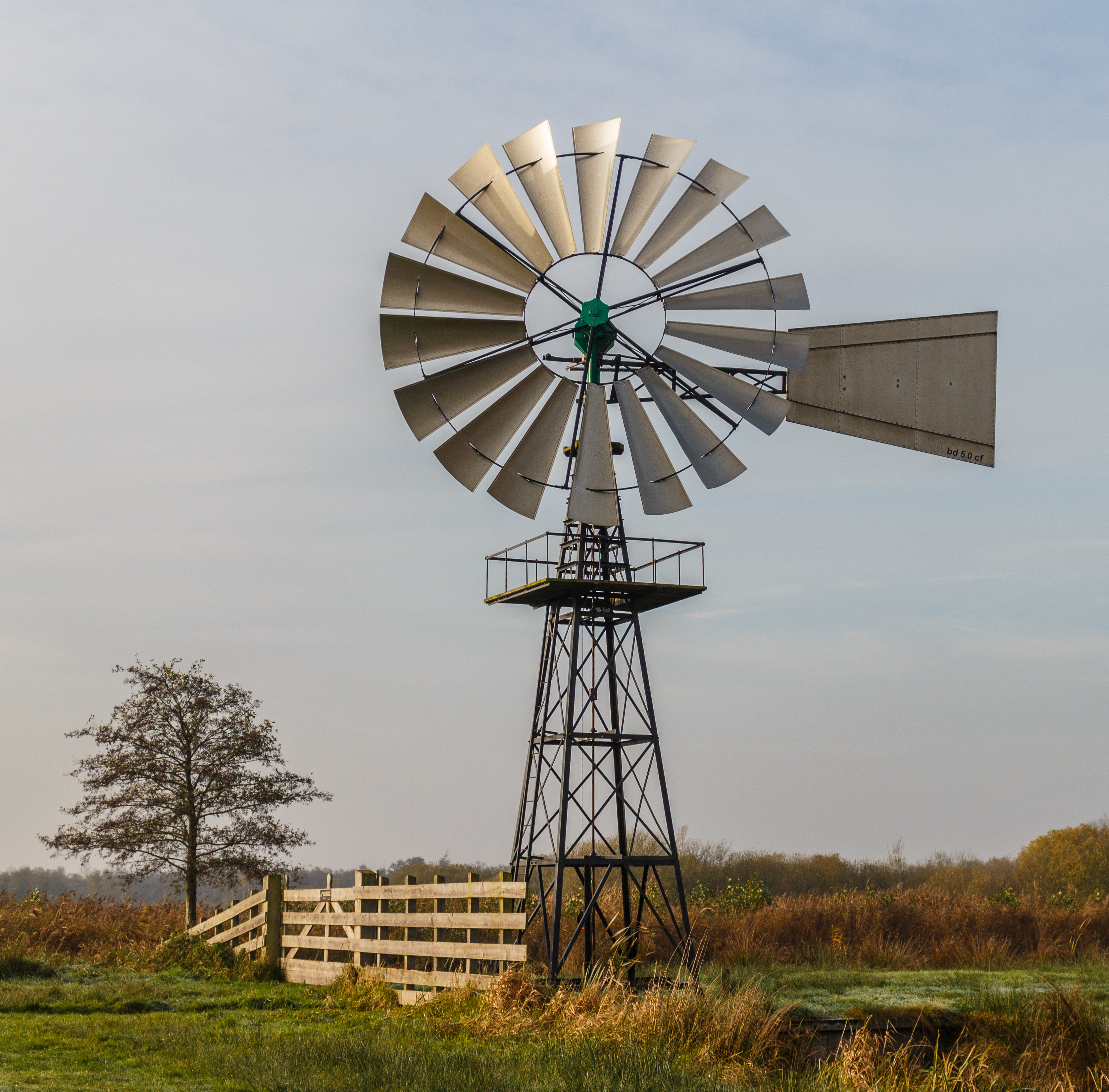 Autumn walk through natural reserve It Wikelslân.